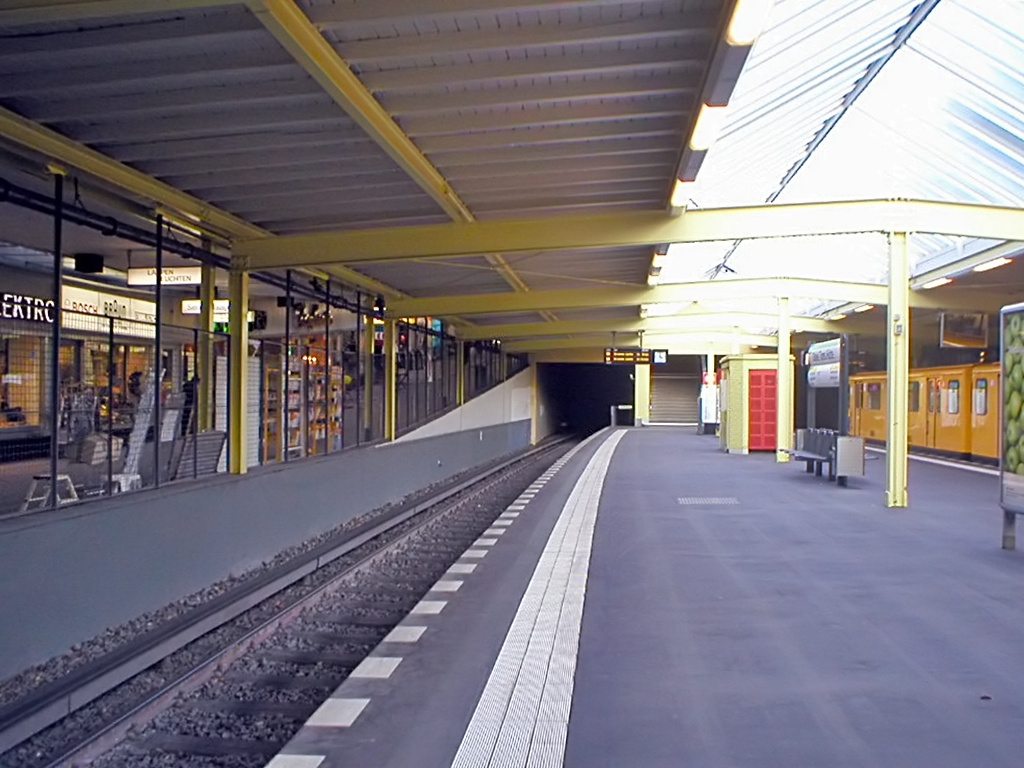 Platform of the Berlin U-Bahn station "Onkel Toms Hütte"